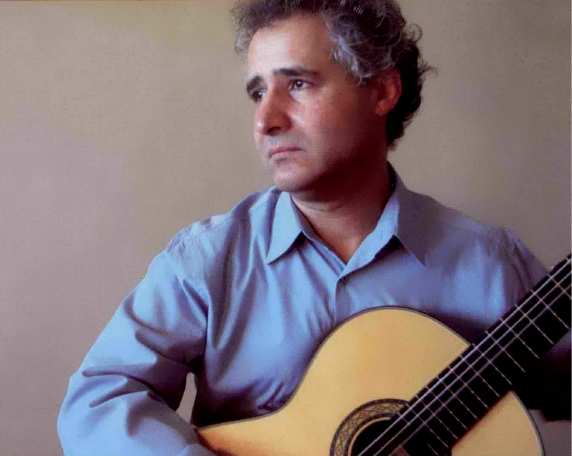 Photo from Bagher Moazen by Peter Ilias, Toronto